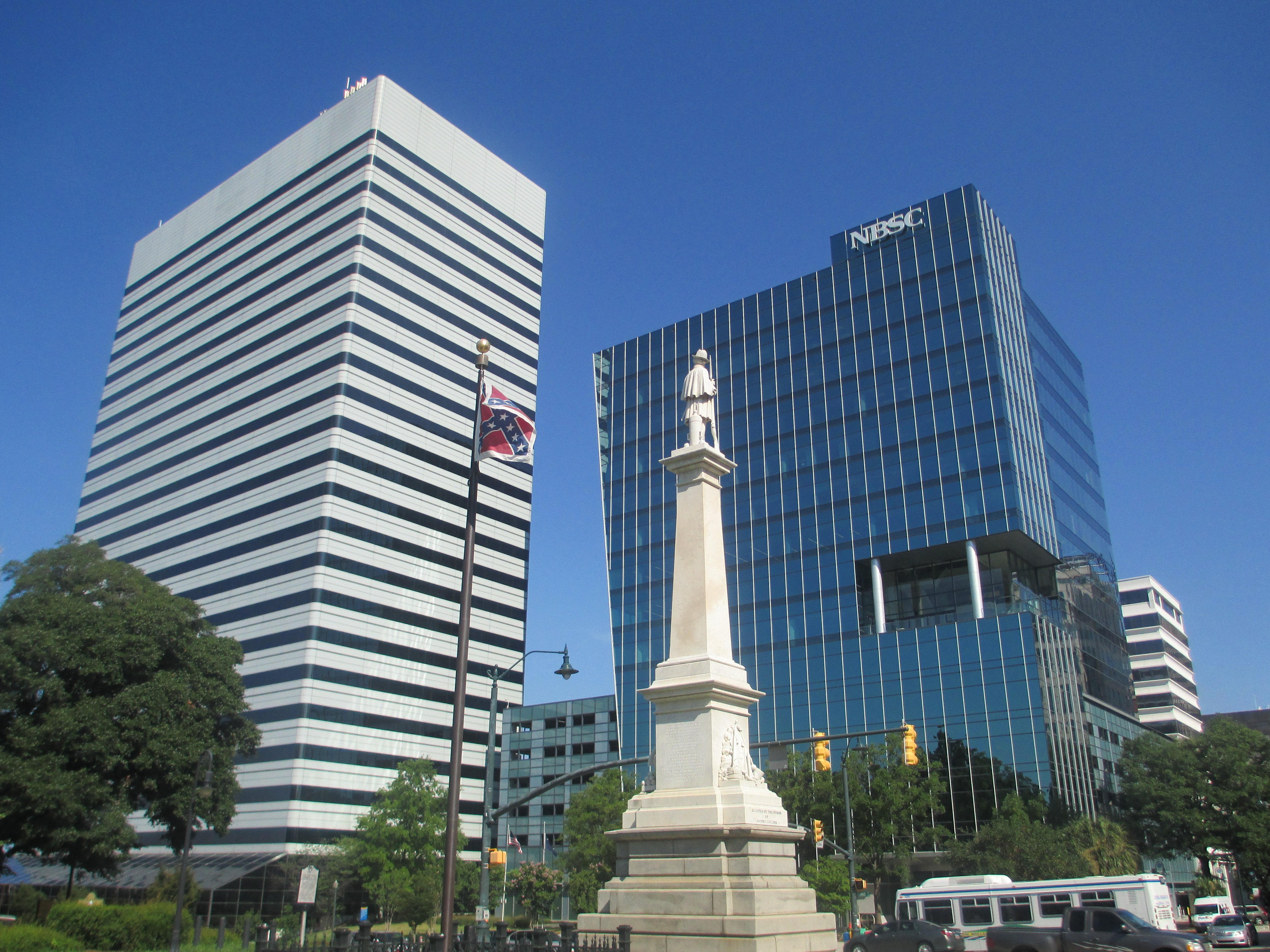 I took photo of Confederate flag at the Confederate monument on the SC capitol grounds in Columbia, with a Canon camera.